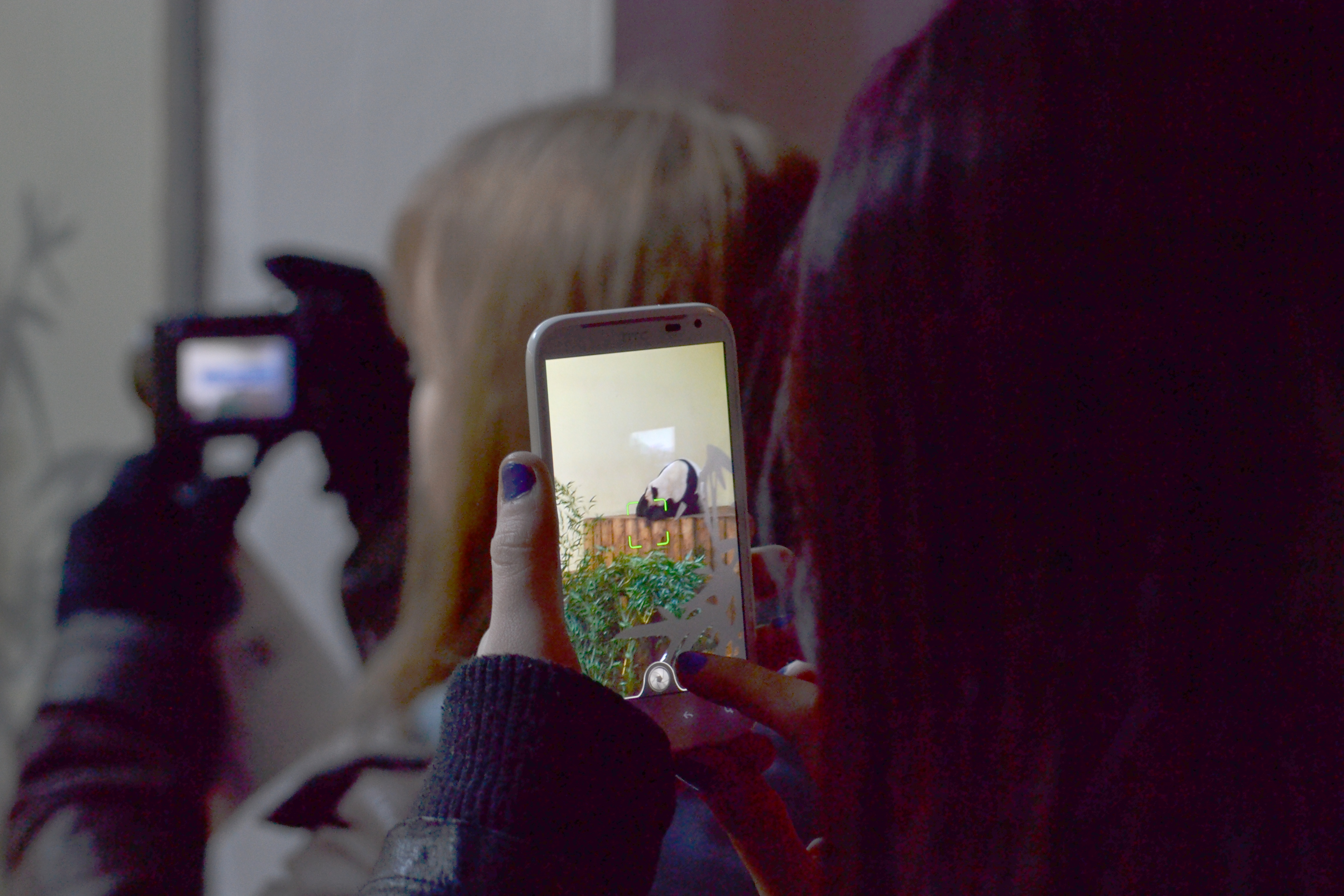 Visitor to Edinburgh Zoo filiming Tian Tian, female Giant Panda, on her smartphone, Jan 2012